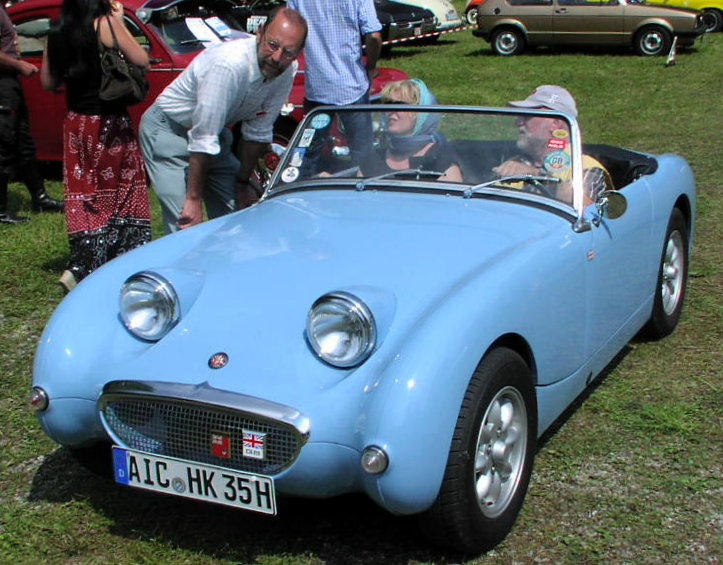 Austin-Healey Sprite